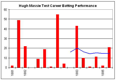 Test batting chart of Hugh Massie. Red columns are the runs in the innings. Blue dots indicate not outs. Blue line is average in the last ten innings. Thanks to Raven4x4x for providing the template.